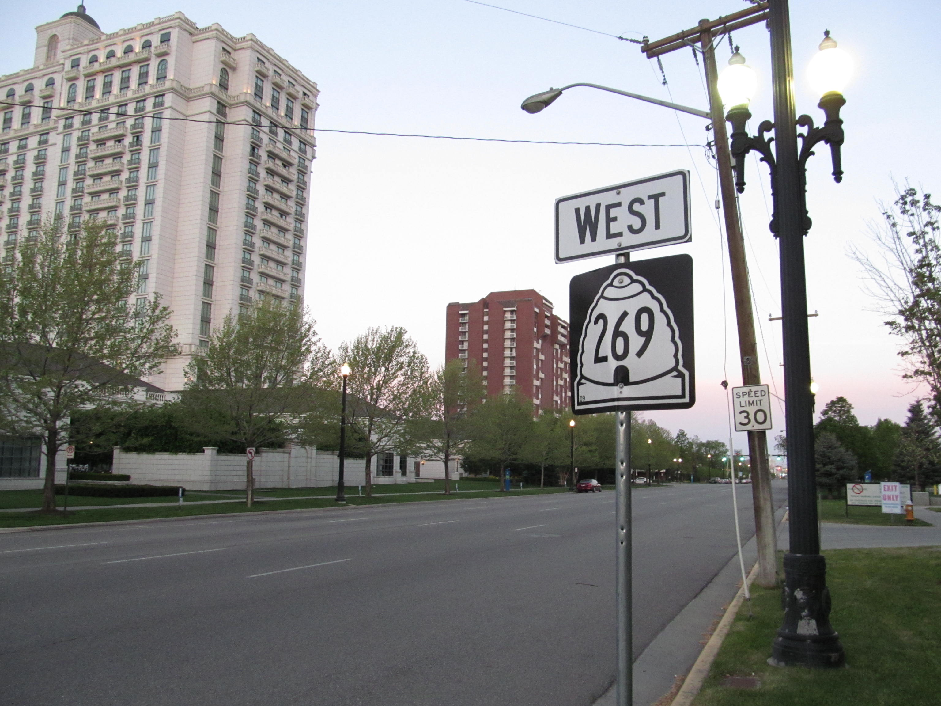 Utah State Route 269 westbound from Utah State Route 270